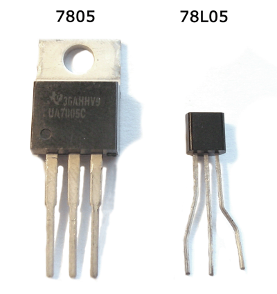 Two voltage regulators (7805 and 78L05).